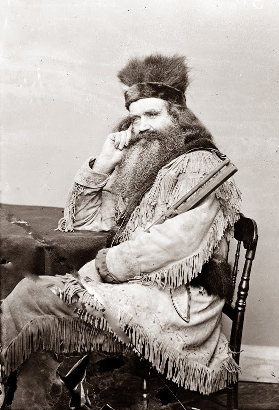 Seth Kinman (1815 – 1888)